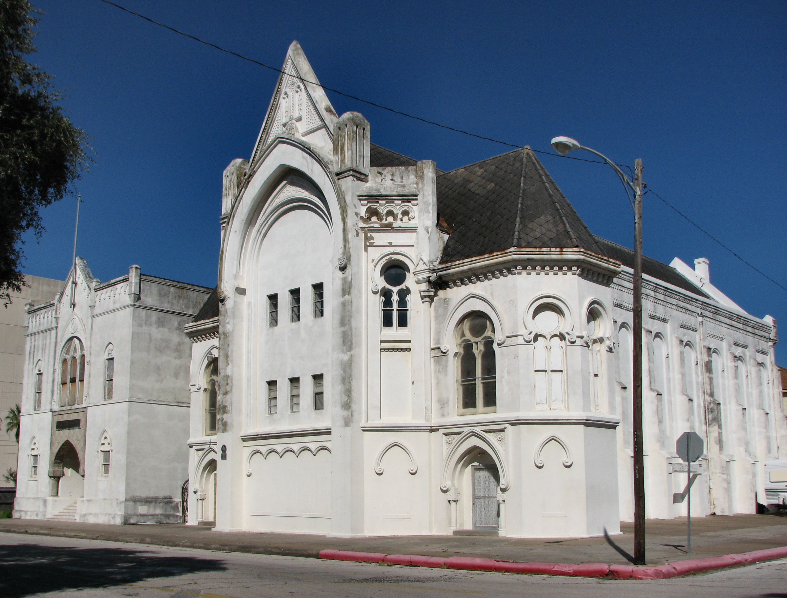 Old B'nai Israel and Cohen Community House. Photo taken by myself. Nsaum75 00:02, 26 October 2007 (UTC)